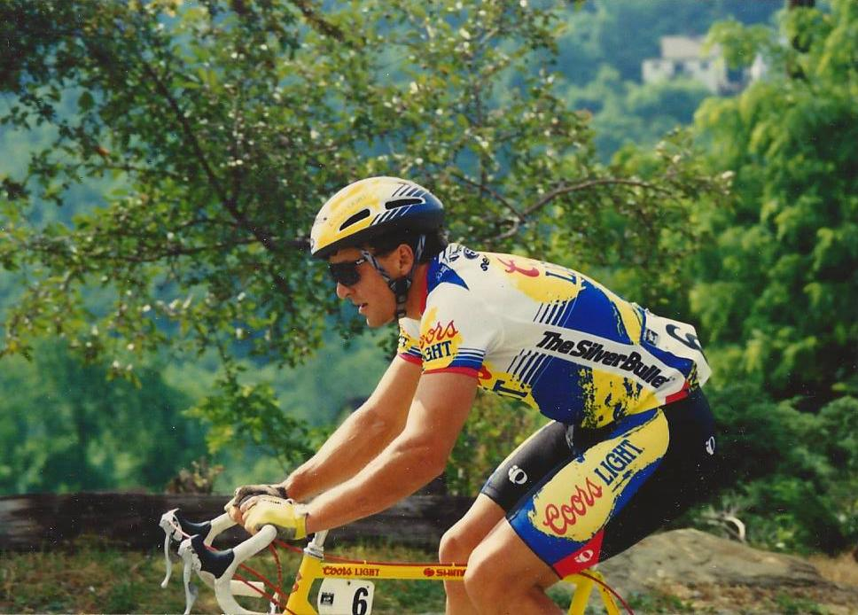 Davis Phinney climbing E. Sycamore Street during the 1991 Thrift Drug Classic in Pittsburgh, PA (USA)